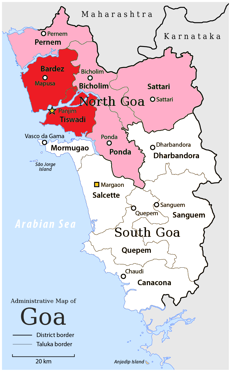 Red: Velhas Conquistas (old Portuguese conquests) Pink: Novo Conquistas (new Portuguese conquests) Yellow: District Capital